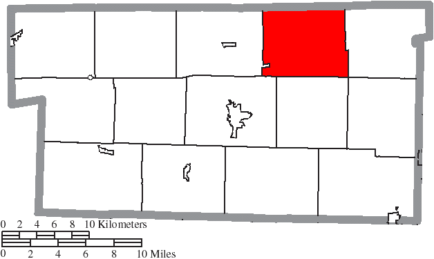 Map of the municipal and township boundaries of Holmes County, Ohio, United States, as of the 2000 census, with the location of Salt Creek Township highlighted. Township borders are shown only in unincorporated areas in order to differentiate incorporated and unincorporated areas more clearly.